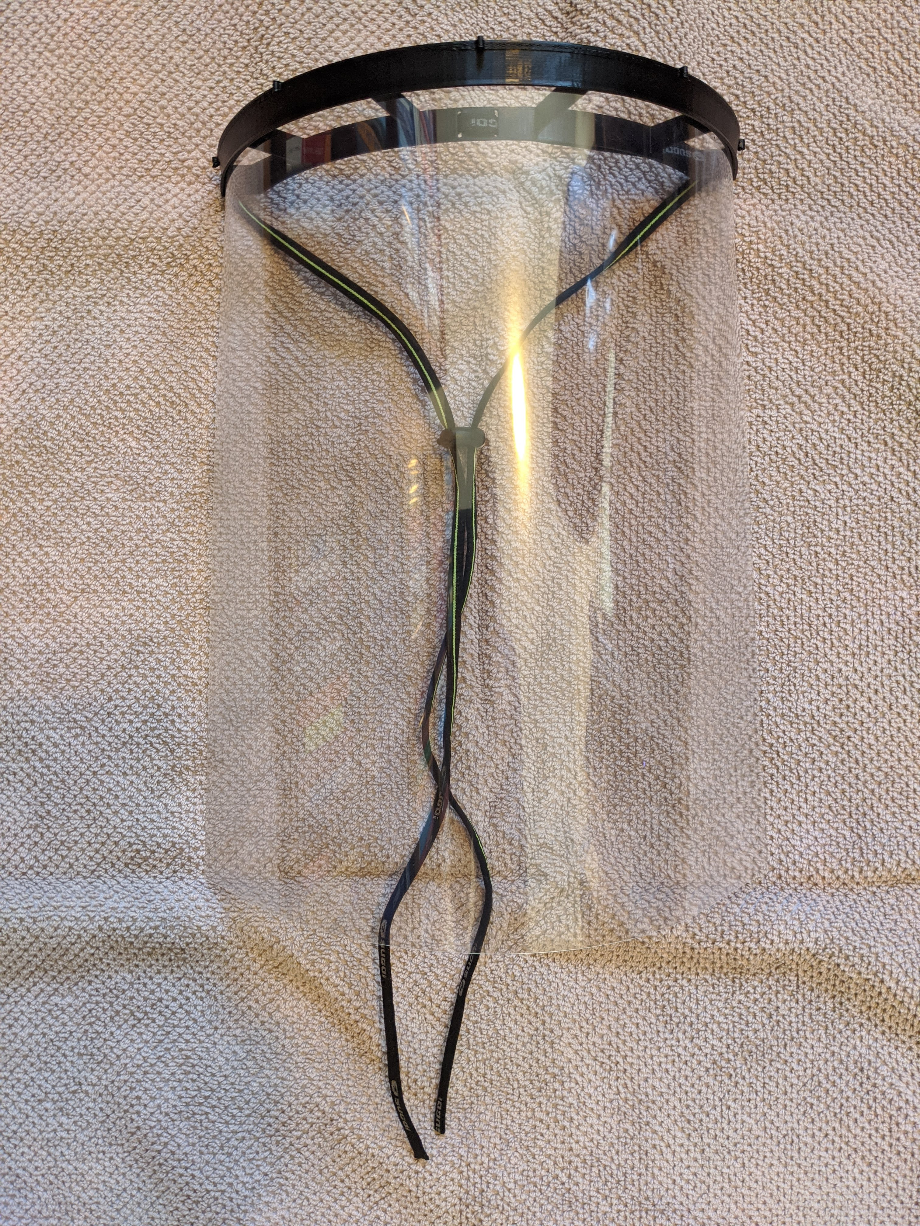 3d printed face shield